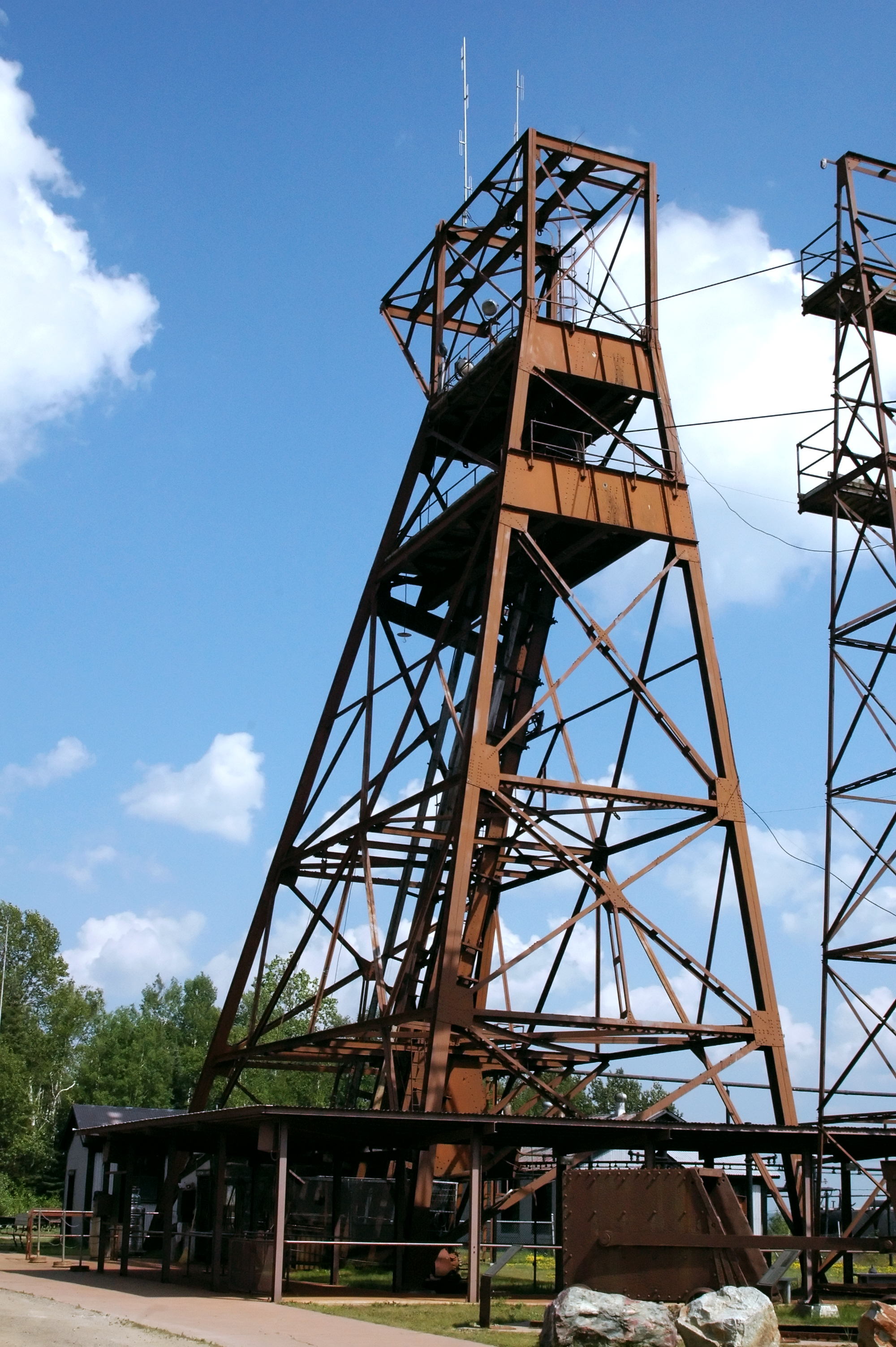 Picture of the main Headframe at the Soudan Underground Mine State Park.